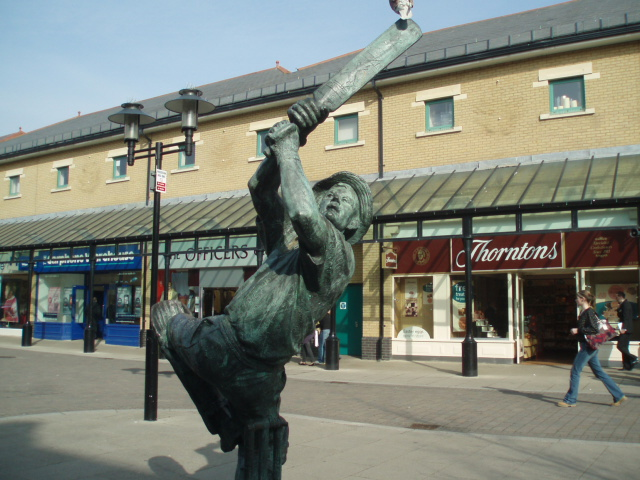 Statue of Cricketer in Hastings town centre